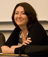 Maryam Namazie at a conference/lecture in Reykjavík on September 6, 2007. The subject of her lecture was: "Renouncing faith : Council of Ex-muslims and Challenging political Islam".